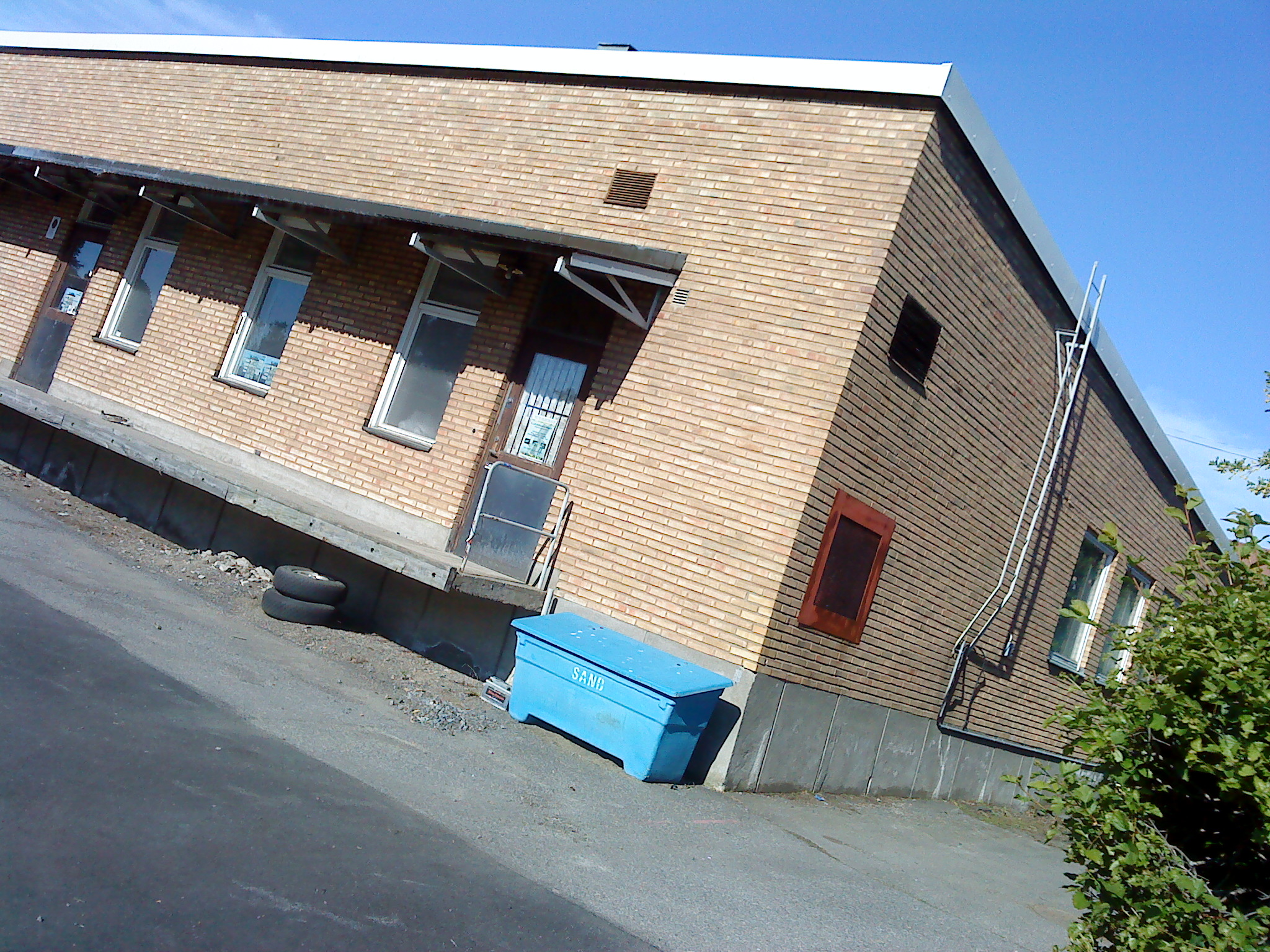 Rumble Road Studio in Skellefteå. Picture taken 2010.